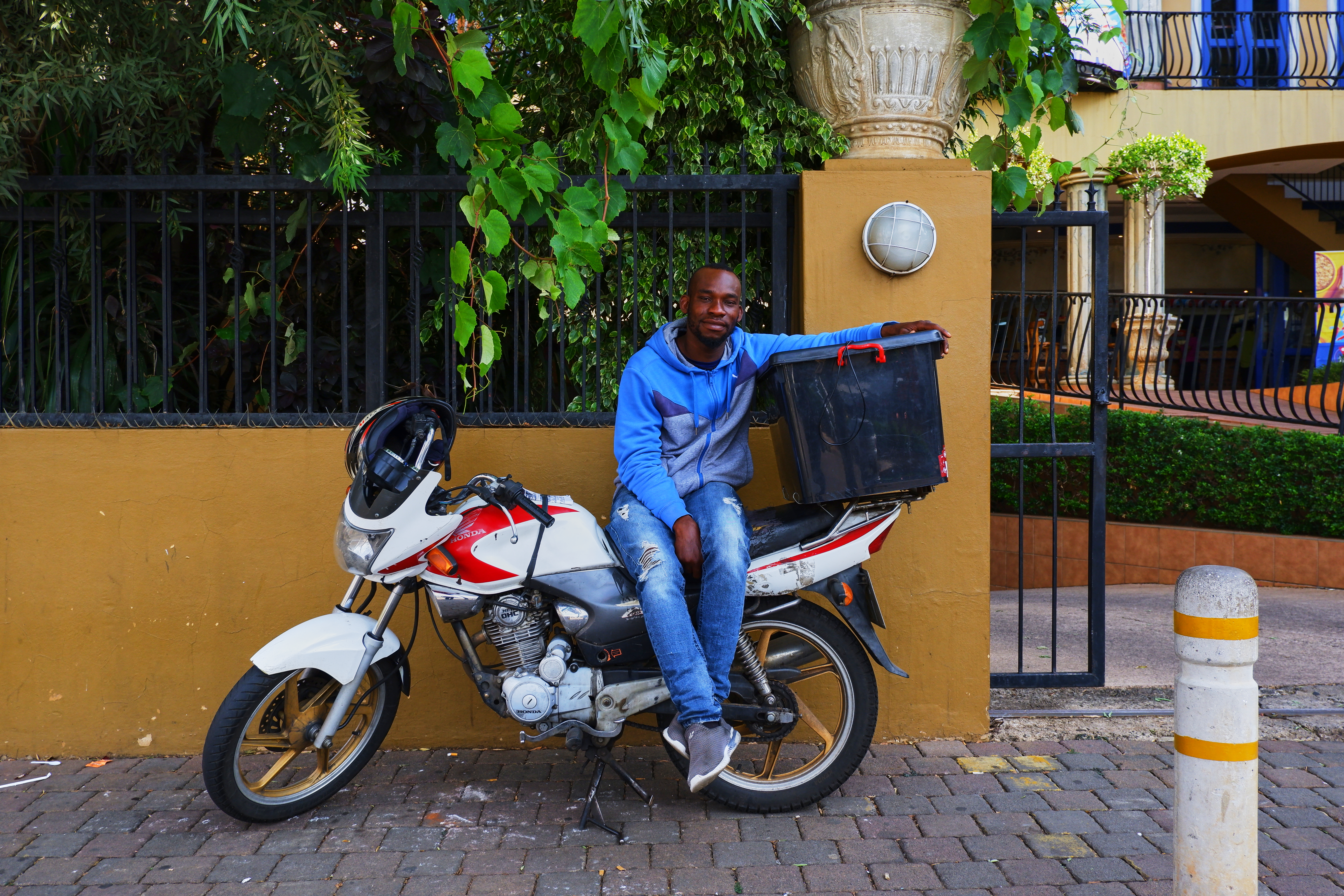 This is an image with the theme "Africa on the Move or Transport" from: South Africa